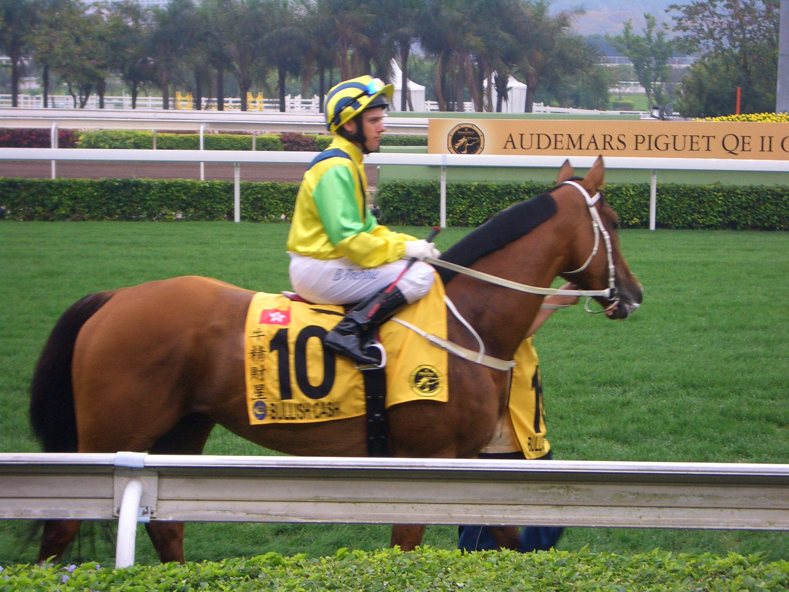 Bullish Cash on APQEII cup